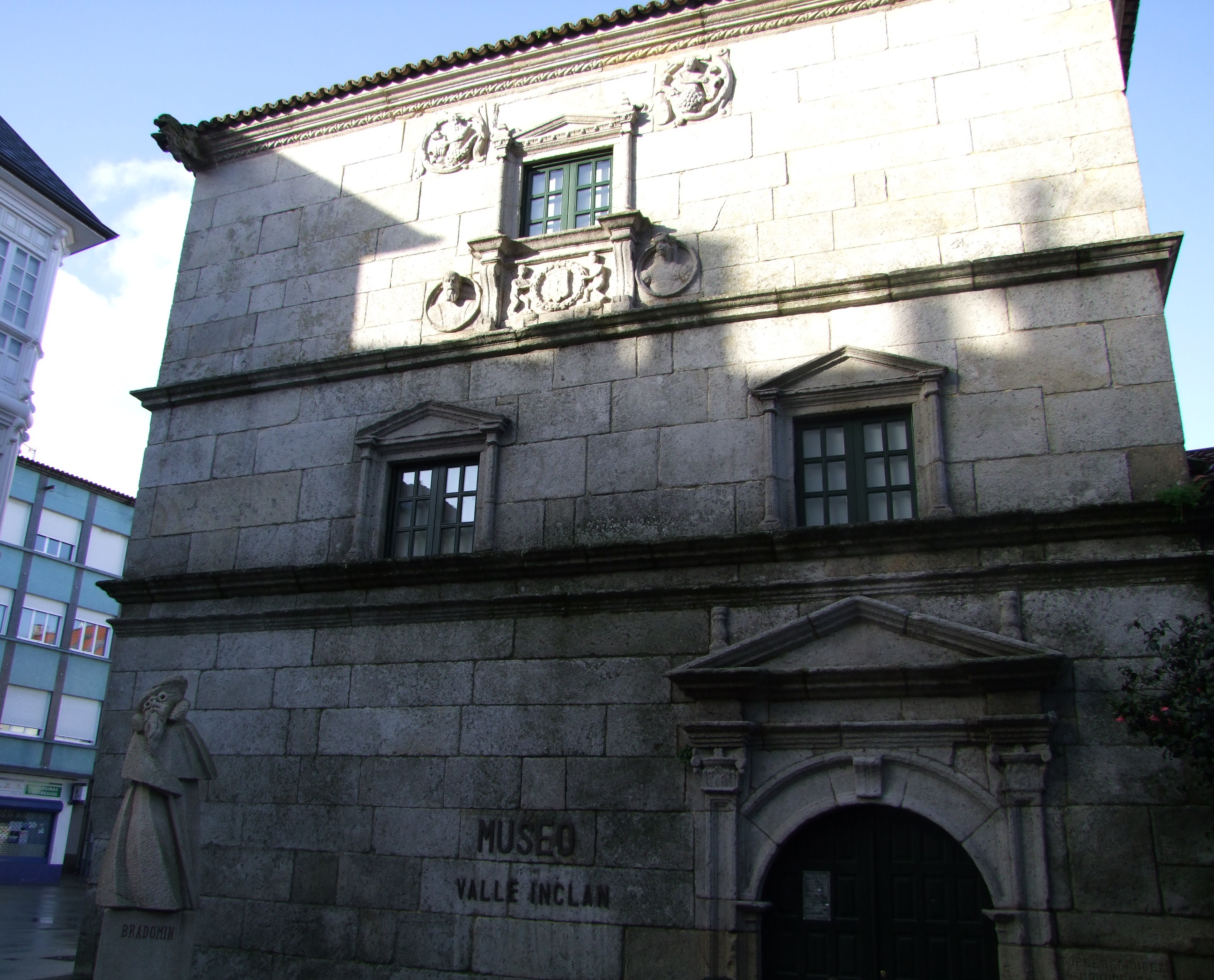 Torre de Bermúdez. Entrada al Museo Valle-Inclán